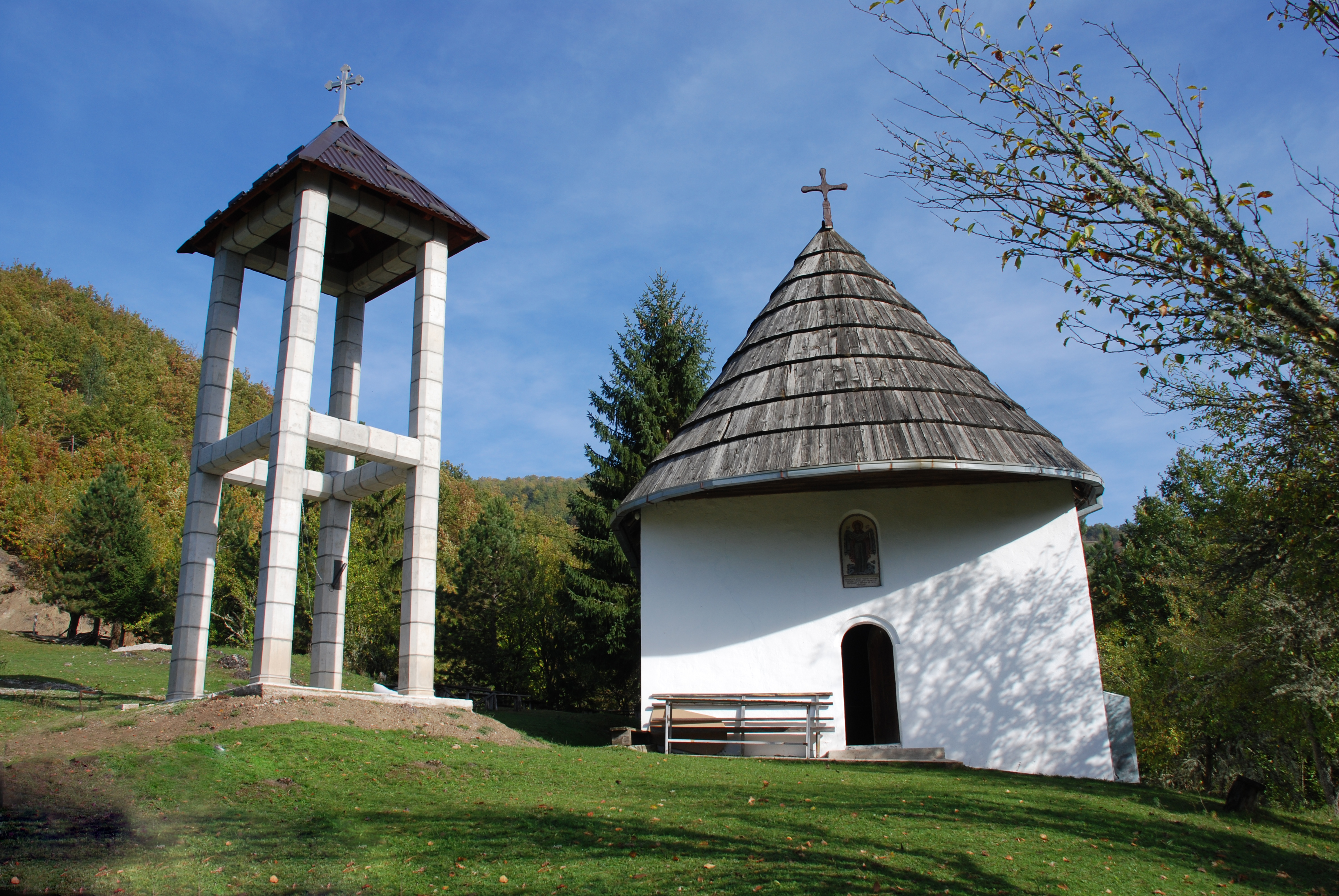 Church of The Virgin's cover in Hercegovačka Goleša near Priboj- general look